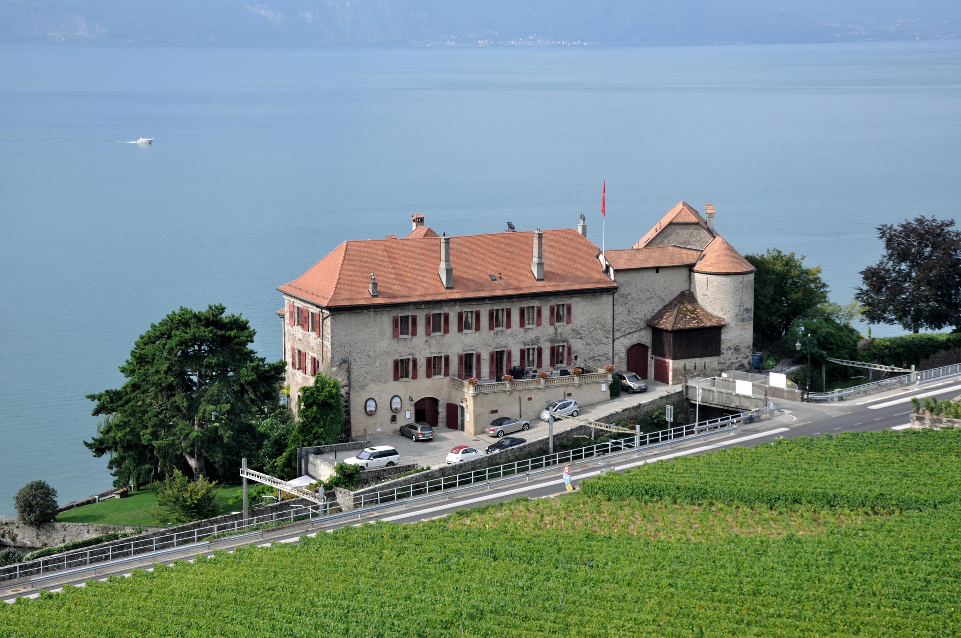 Switzerland, Vaud, hike along Lake Geneva from St. Saphorin to Lutry